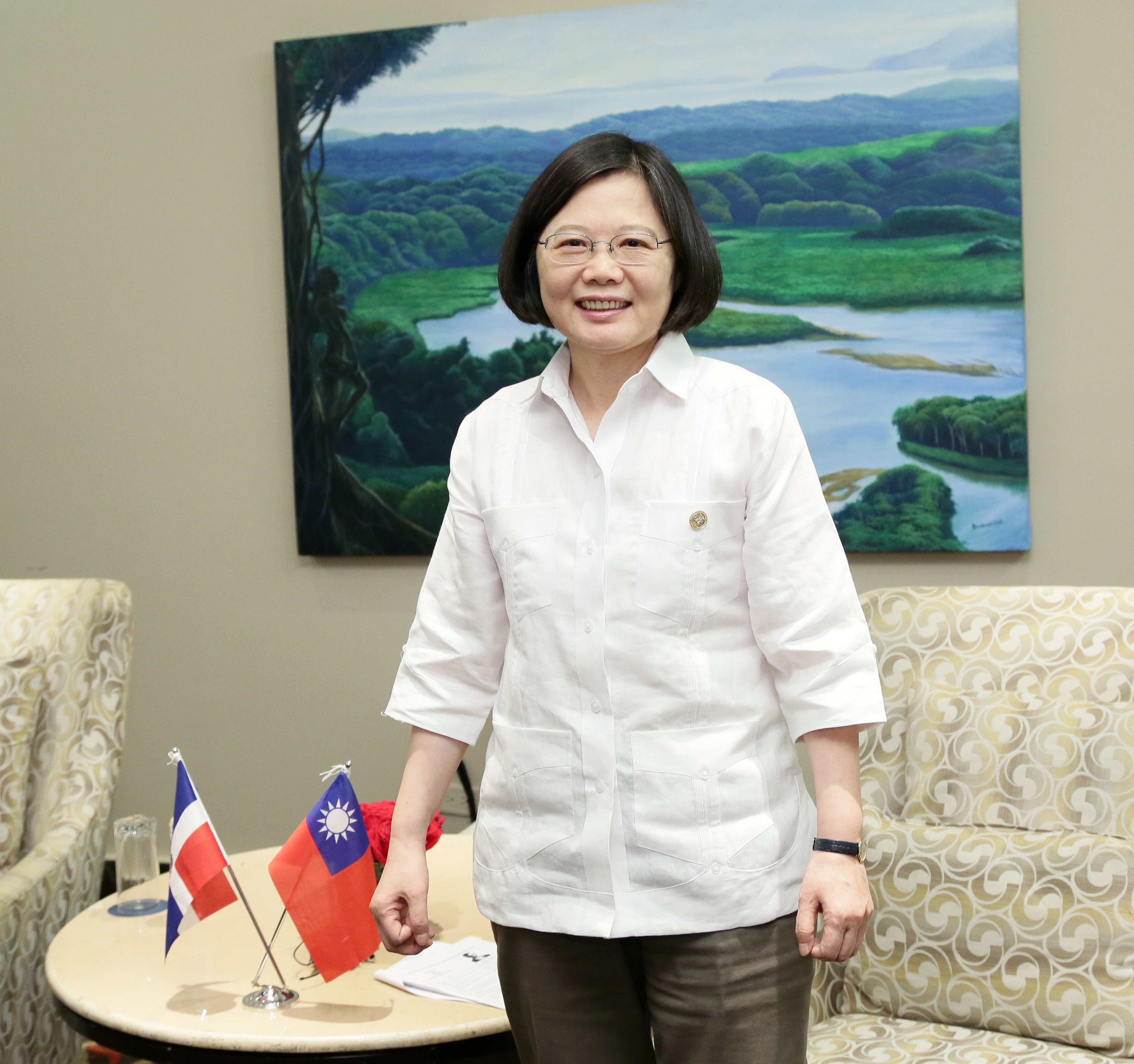 President Tsai wears a white Guayabera given by the First Lady of Panama, Lorena Castillo de Varela. (2016/06/27) La Presidenta Tsai luce una guayabera regalada por la Primera Dama de Panamá.(2016/06/27) 授權方式及範圍：中華民國總統府│政府網站資料開放宣告 Authorization Method & Scope: Office of the President, Republic of China (Taiwan) | Government Website Open Information Announcement